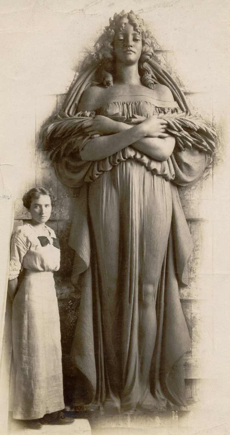 Sepia photograph of Geneva Mercer, Giuseppe Moretti's assistant, with a sculpture model for the Palacio Centro Gallego in Havana, Cuba circa 1911-1914.